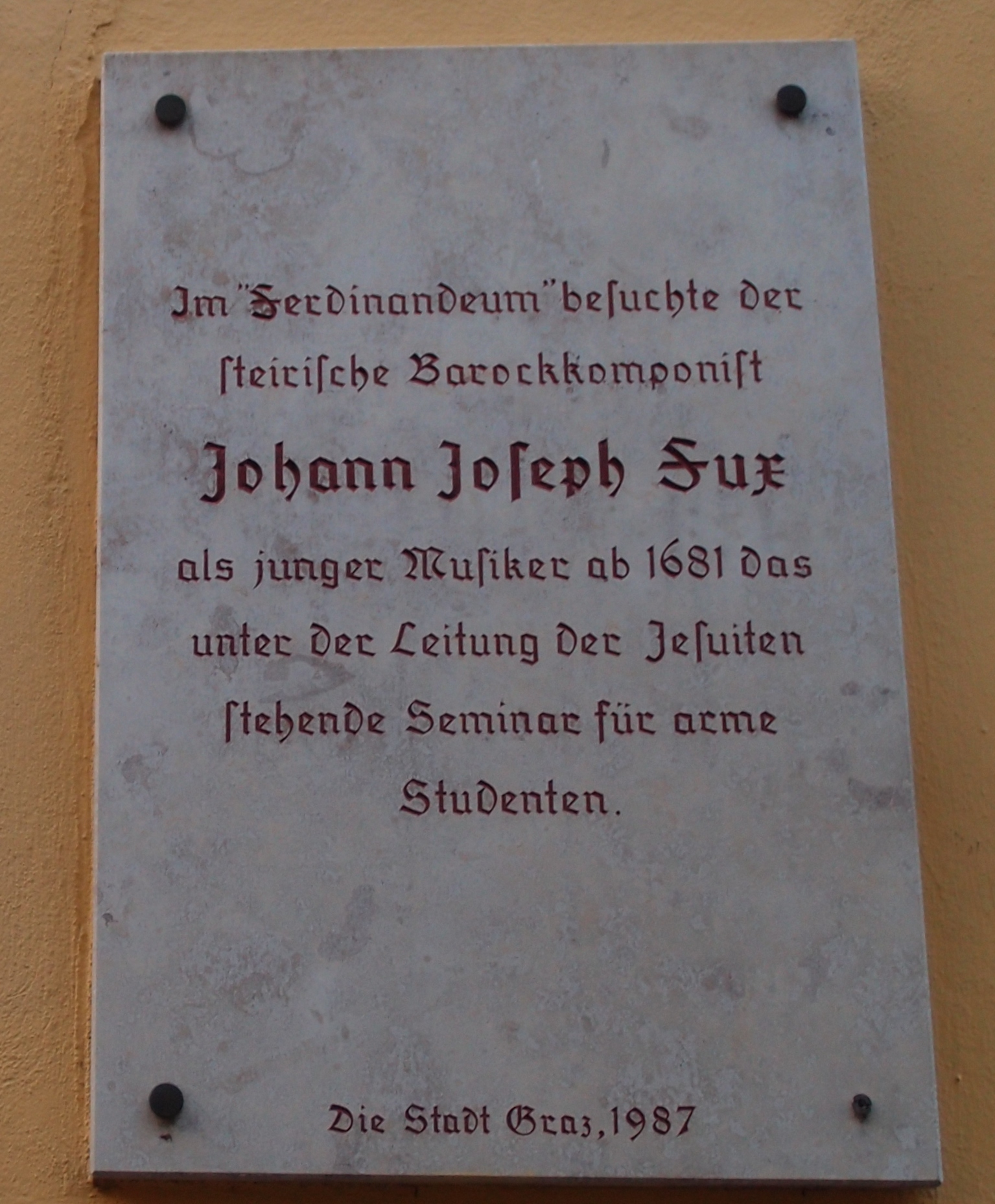 Memorial plaque for the composer Johann Joseph Fux in Graz, Faerbergasse 11 (Austria).